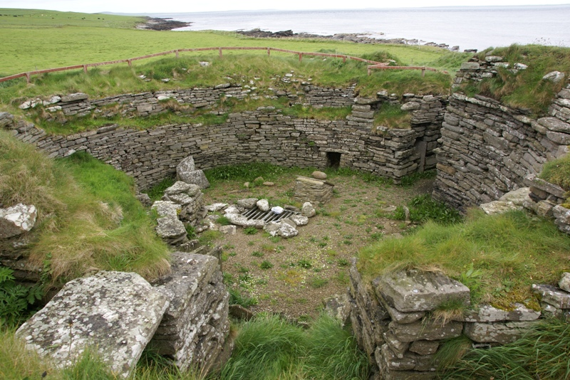 Burroughston Broch, Shapinsay, Orkney, Scotland. Interior seen from south.